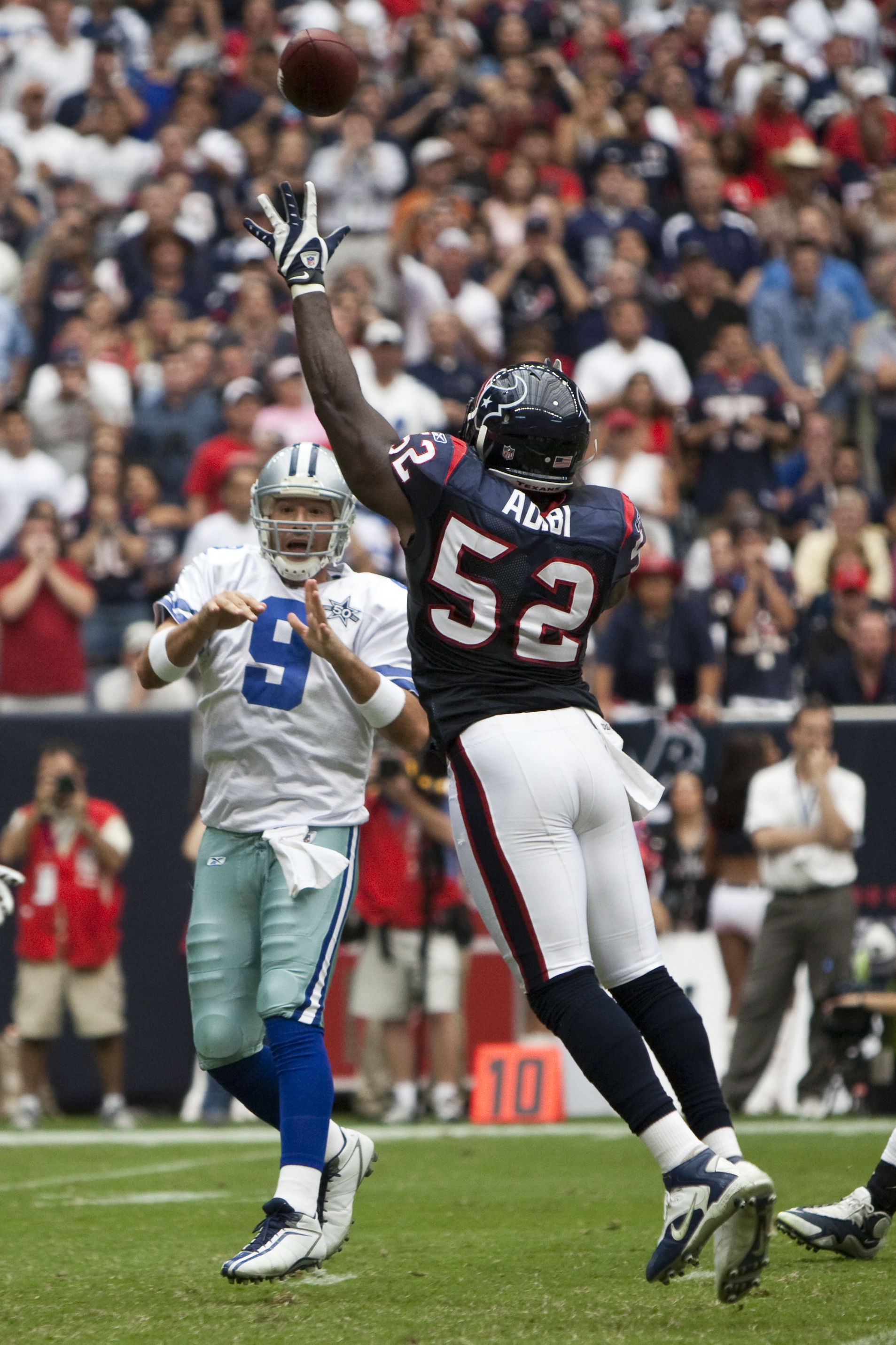 Tony Romo of the Dallas Cowboys gets a pass of just over the out stretched arm of Texans line backer Xavier Adibi in the Cowboys win over the Houston Texans Sunday Sept. 26, 2010. Reliant Stadium.